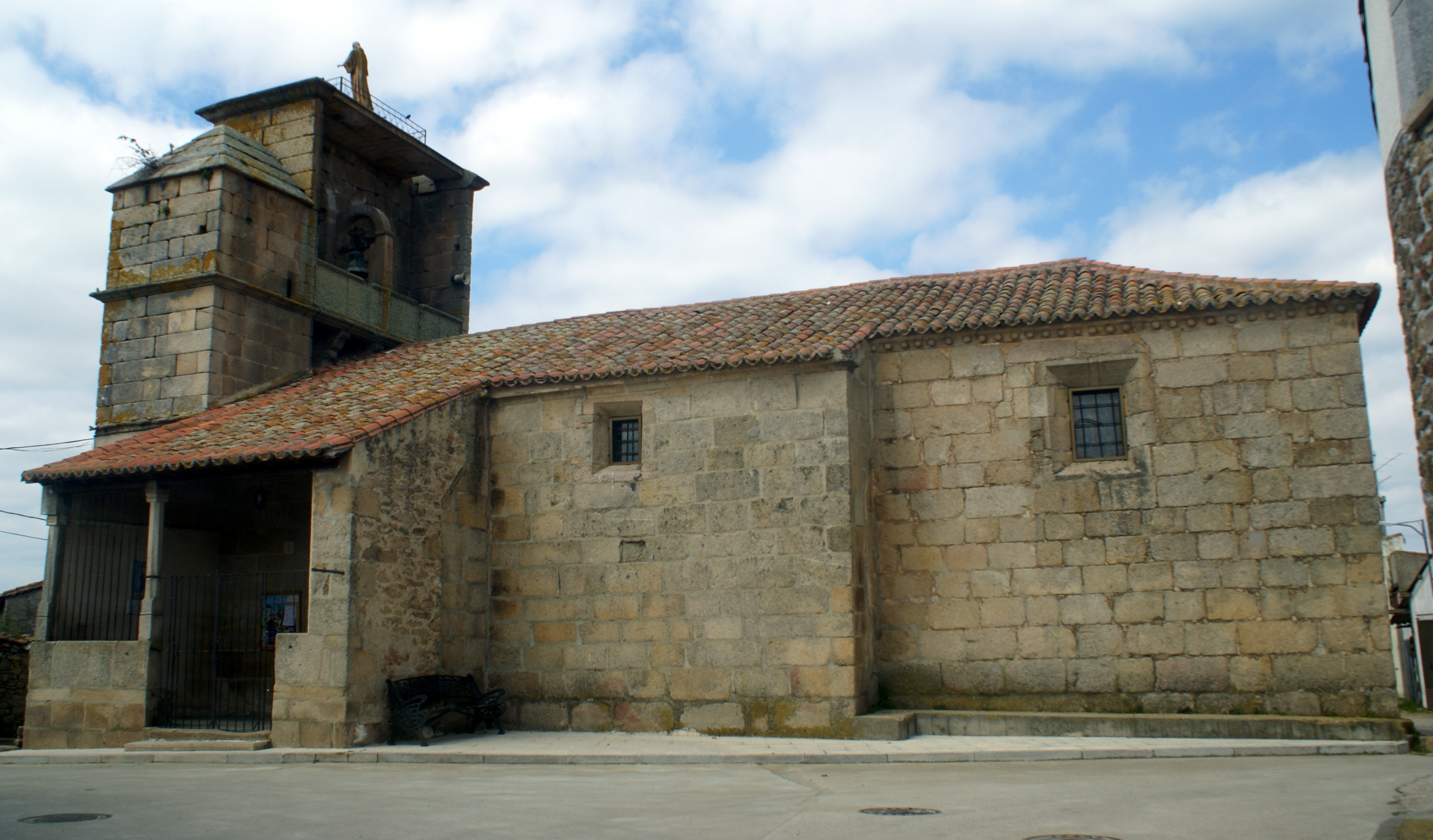 Church of Valsalabroso, Salamanca, Spain.